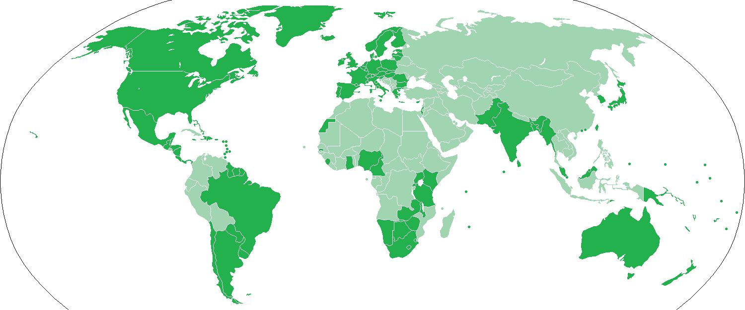 Visa policy of Montserrat, unuseable map without any explanation for the different colours